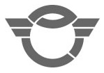 Fujimi Nagano chapter